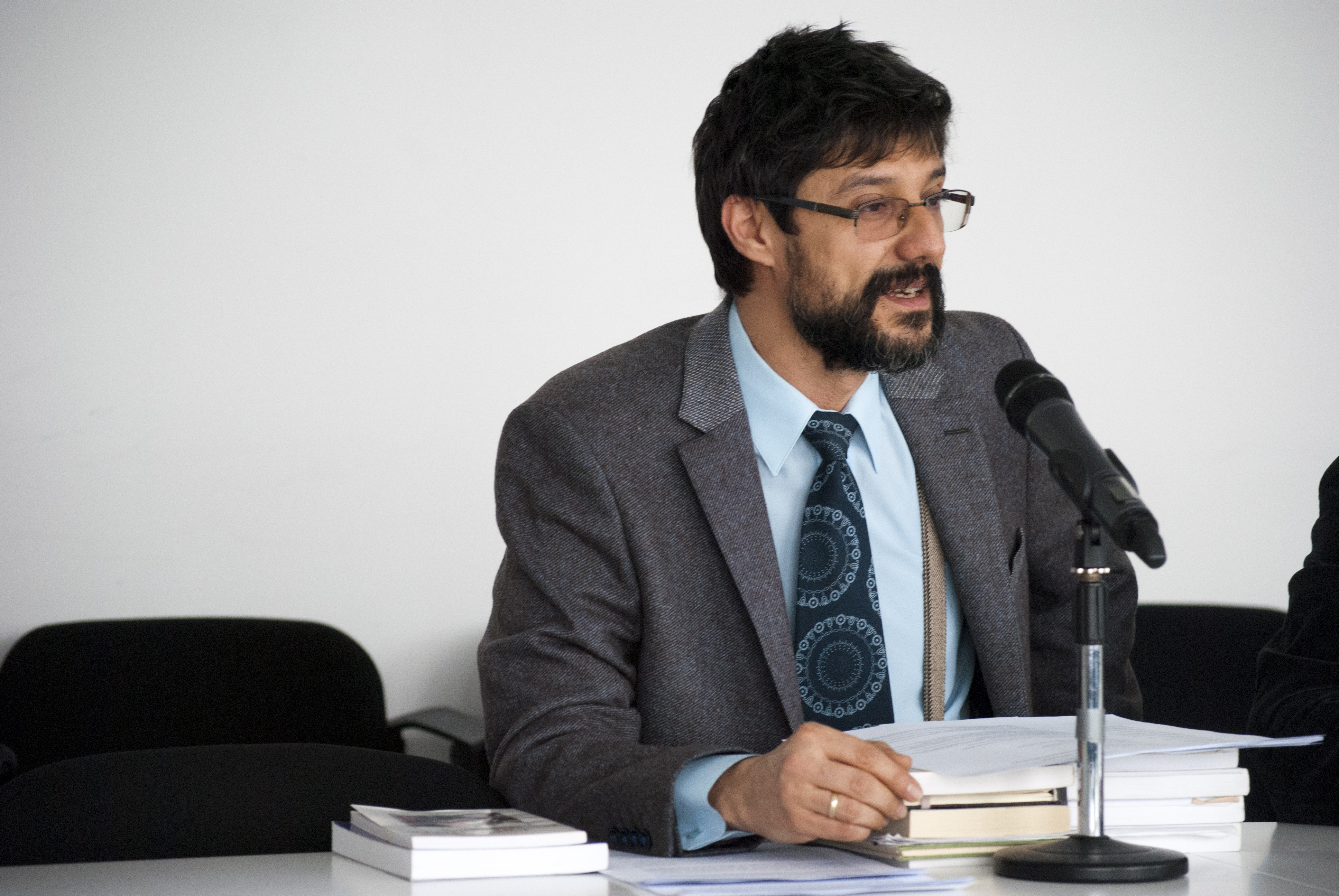 Yordan Eftimov at the VI Atanas Slavov's Readings in the New Bulgarian University, January 18, 2016